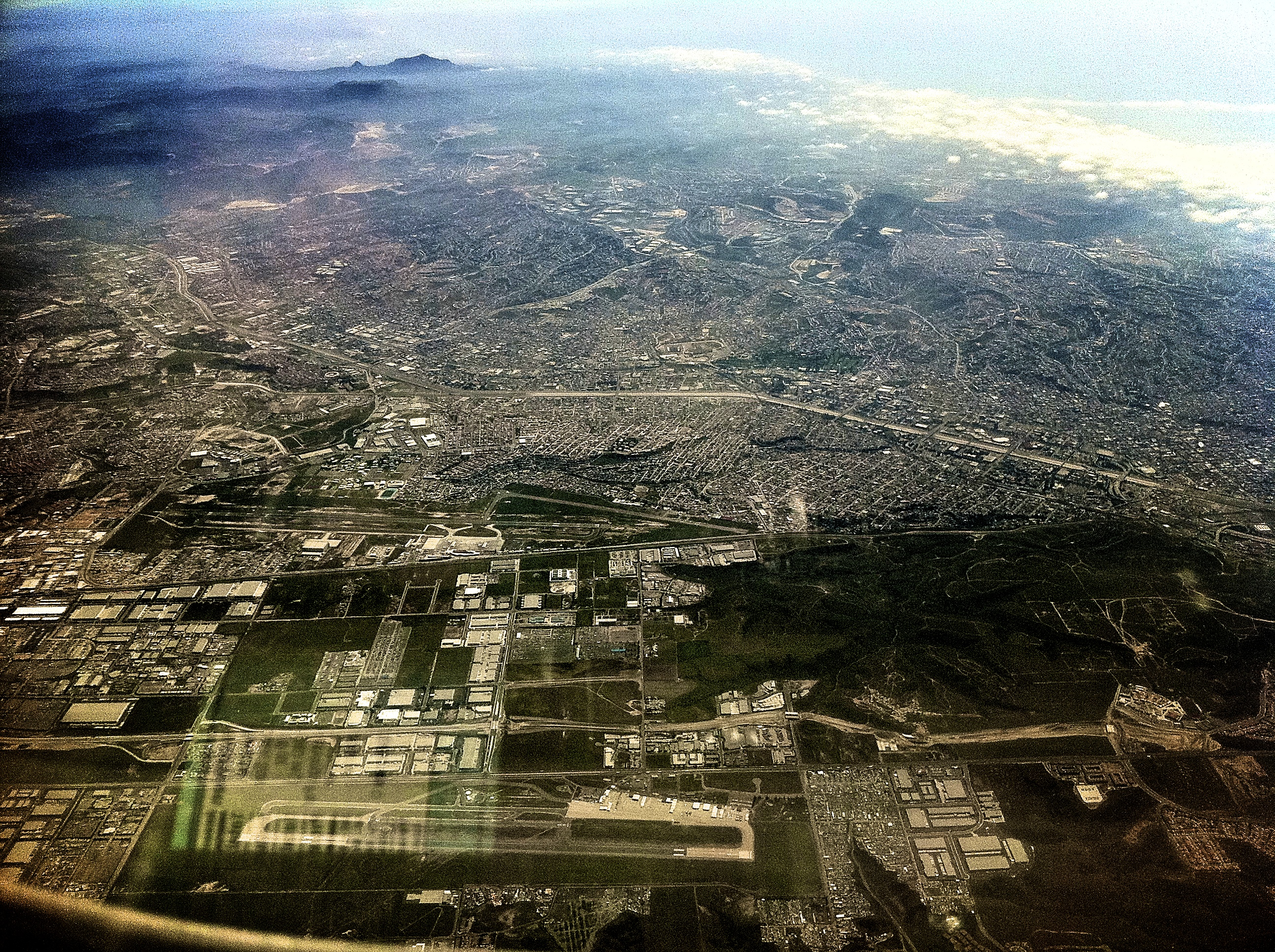 Tijuana International Airport from above at 10,000 feet in March 2011.